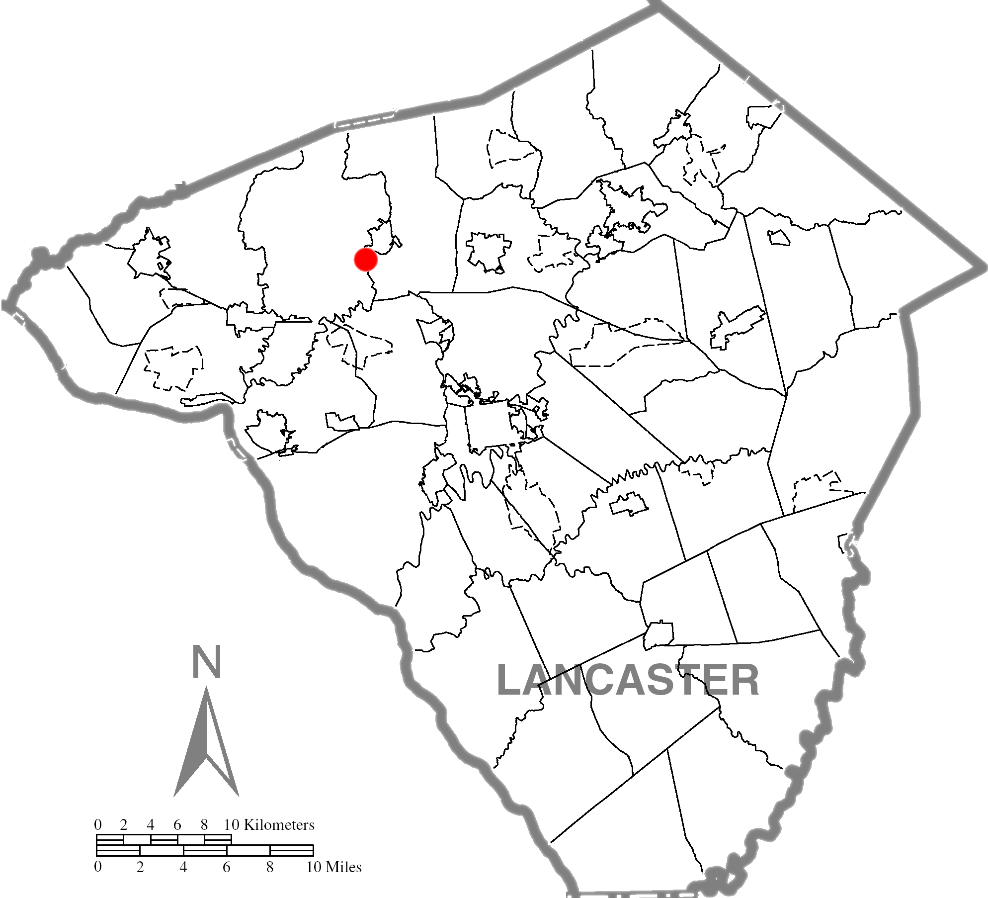 Lancaster County dot map of the Kauffman's Distillery Covered Bridge.